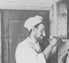 Charles Green (taken on board Endurance)